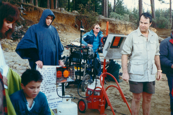 Photo of actor Dan Aykroyd on the set of The Great Outdoors in 1987.